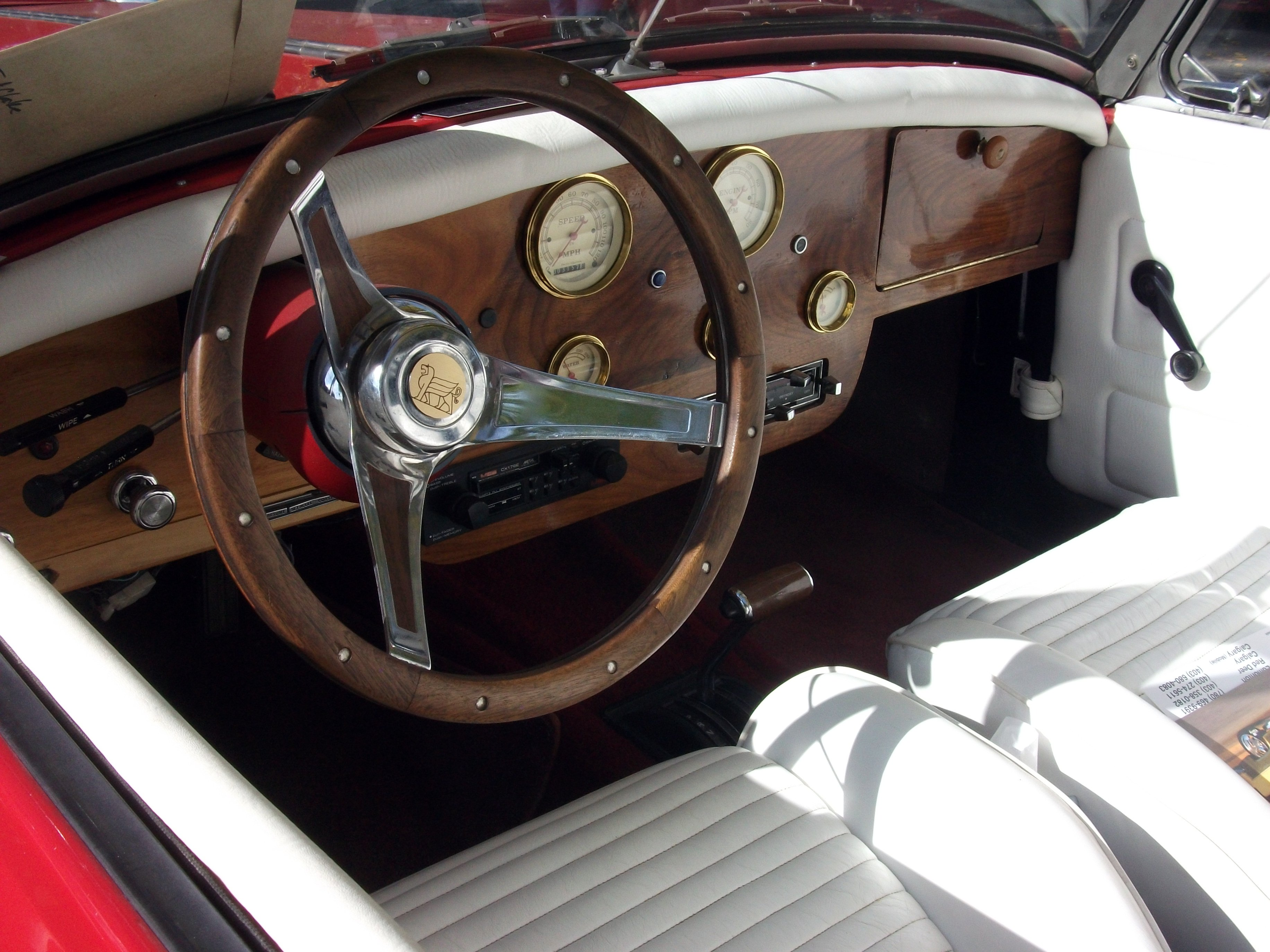 Dash of the neo-classic 1970 Gatsby